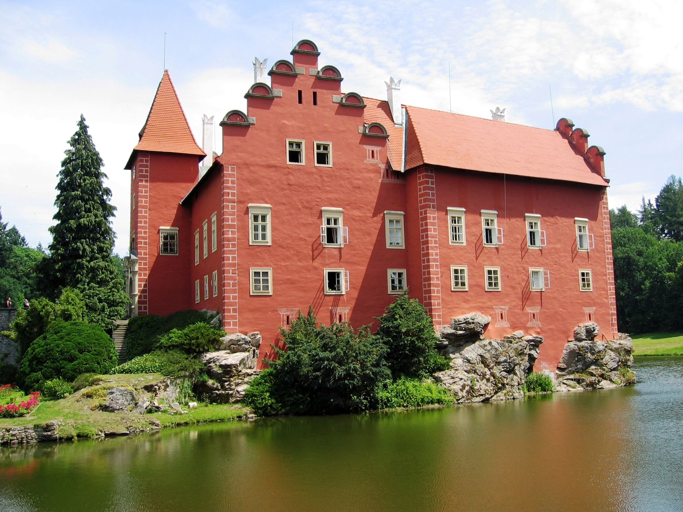 Cervena Lhota Castle, Czech Republic